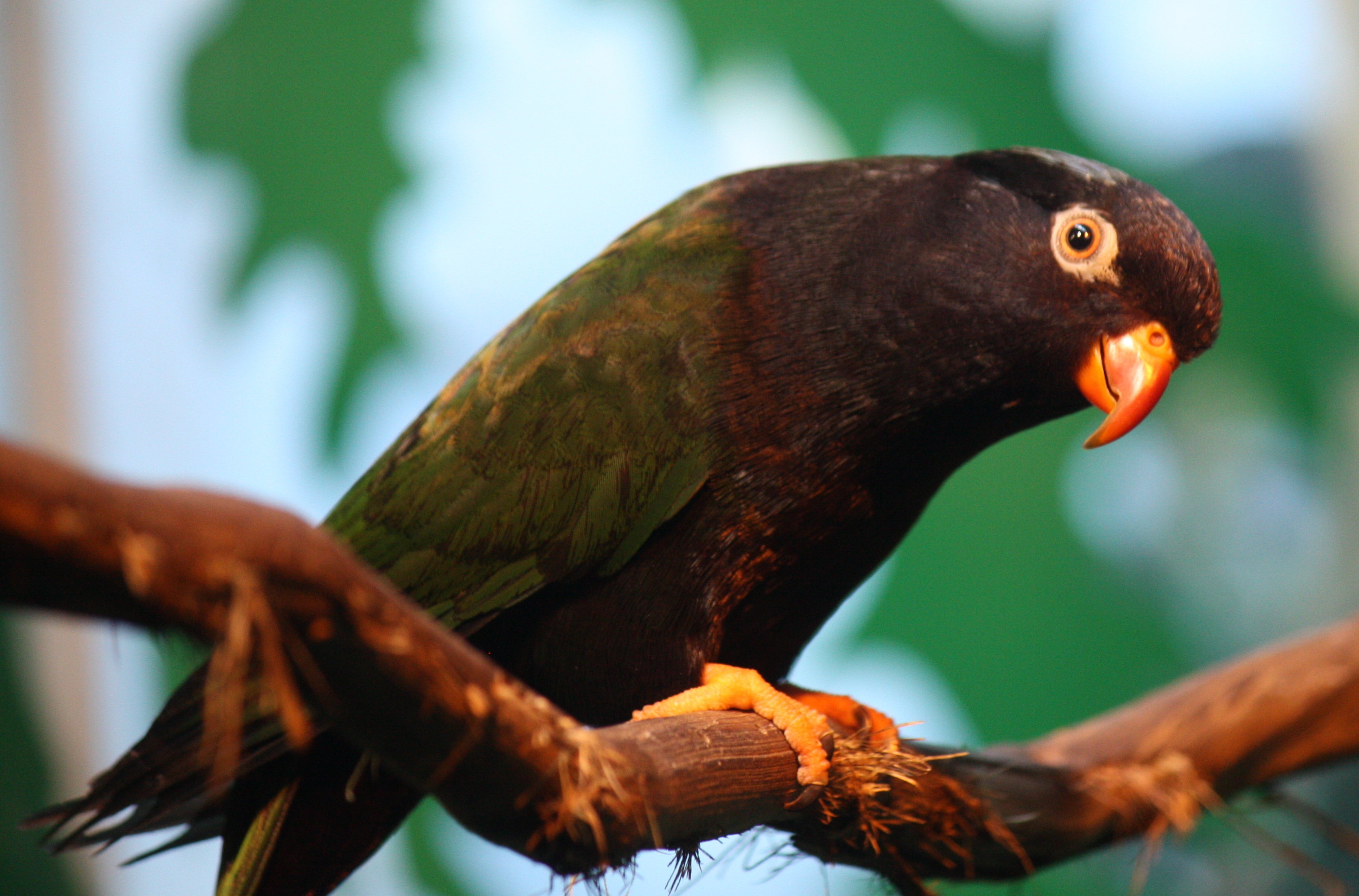 A melanistic phase Stella's Lorikeet Charmosyna papou goliathina at Louisville Zoo.